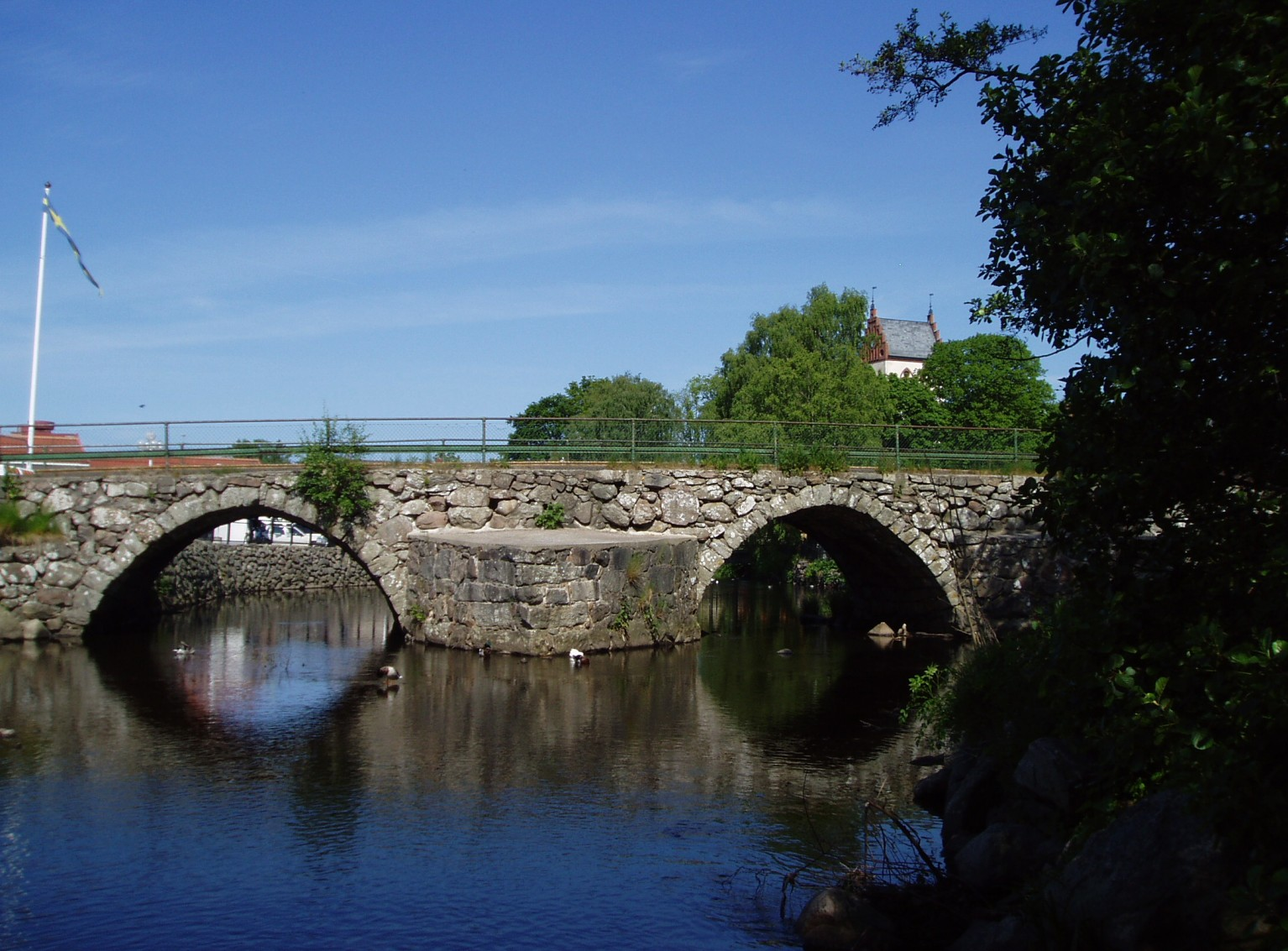 River Hörbyån in Hörby, Scania, Sweden